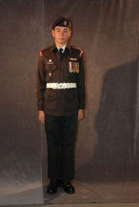 Army Cadet wearing their C1 uniform